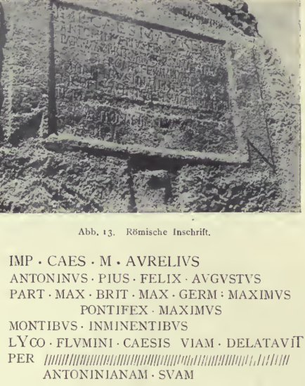 Nahr al-Kalb Roman inscription photo 1922 with transcription. CIL III 206: Imp(erator) Caes(ar) M(arcus) Aurelius / Antoninus Pius Felix Augustus / Part(hicus) maximus Brit(annicus) max(imus) Germ(anicus) maximus / pontifex maximus / montibus inminentibus / Lyco flumini caesis viam delatavit / per leg(ionem) III Gallicam / Antoninianam suam